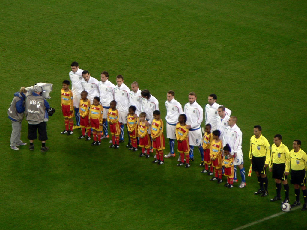 Italian team before the game between Italy and Paraguay at FIFA World Cup 2010, 14 June 2010, Green Point Stadium, Cape Town